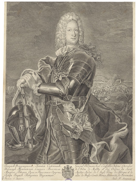 Sheremetyev portrait